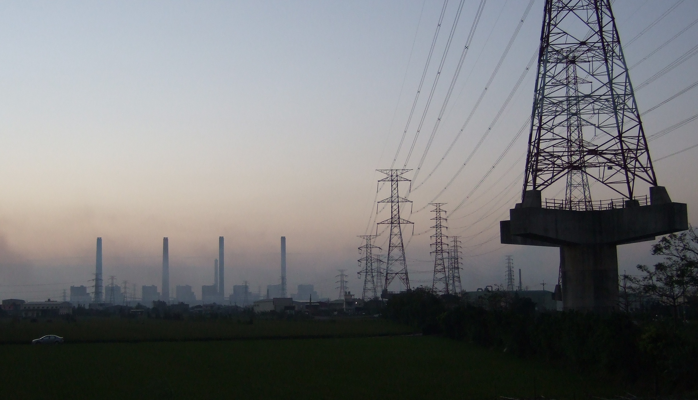 The Taichung Power Station in Taiwan.